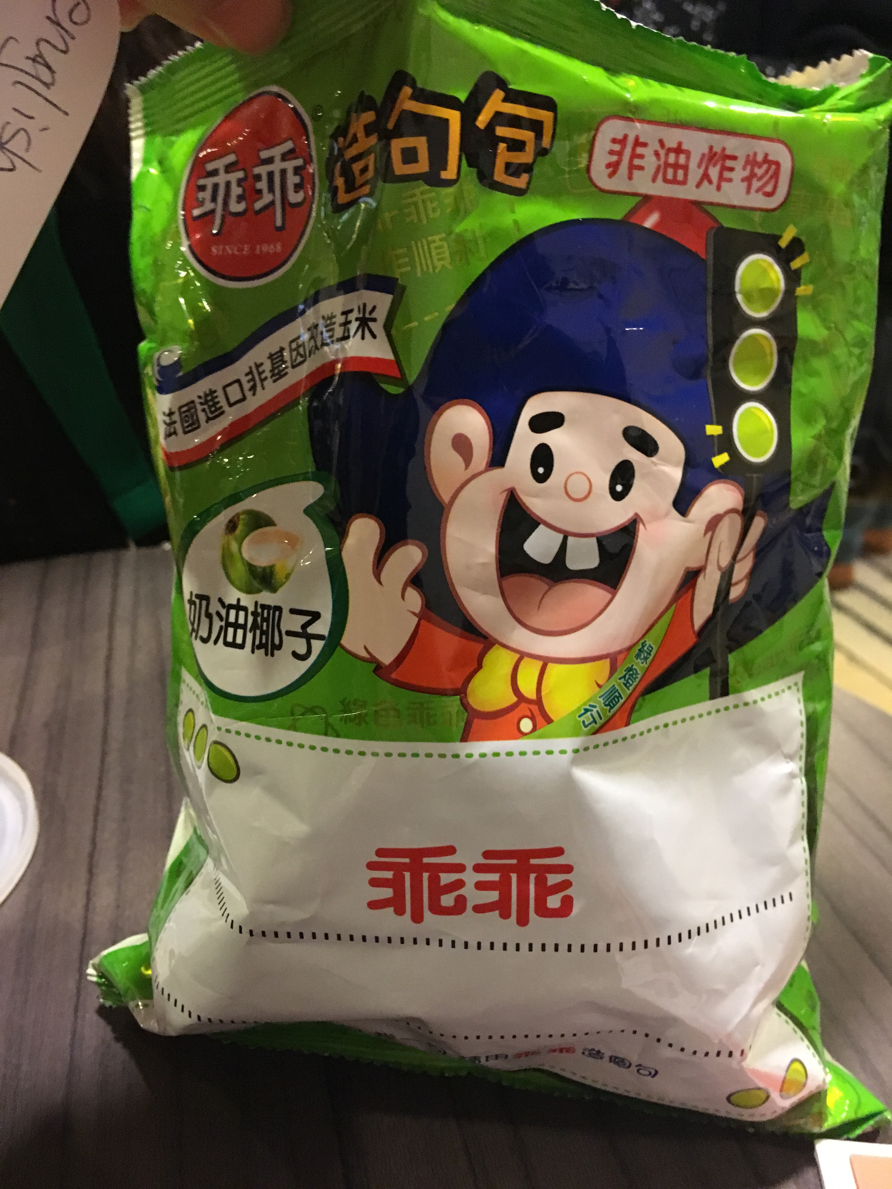 Kuai Kuai green pack